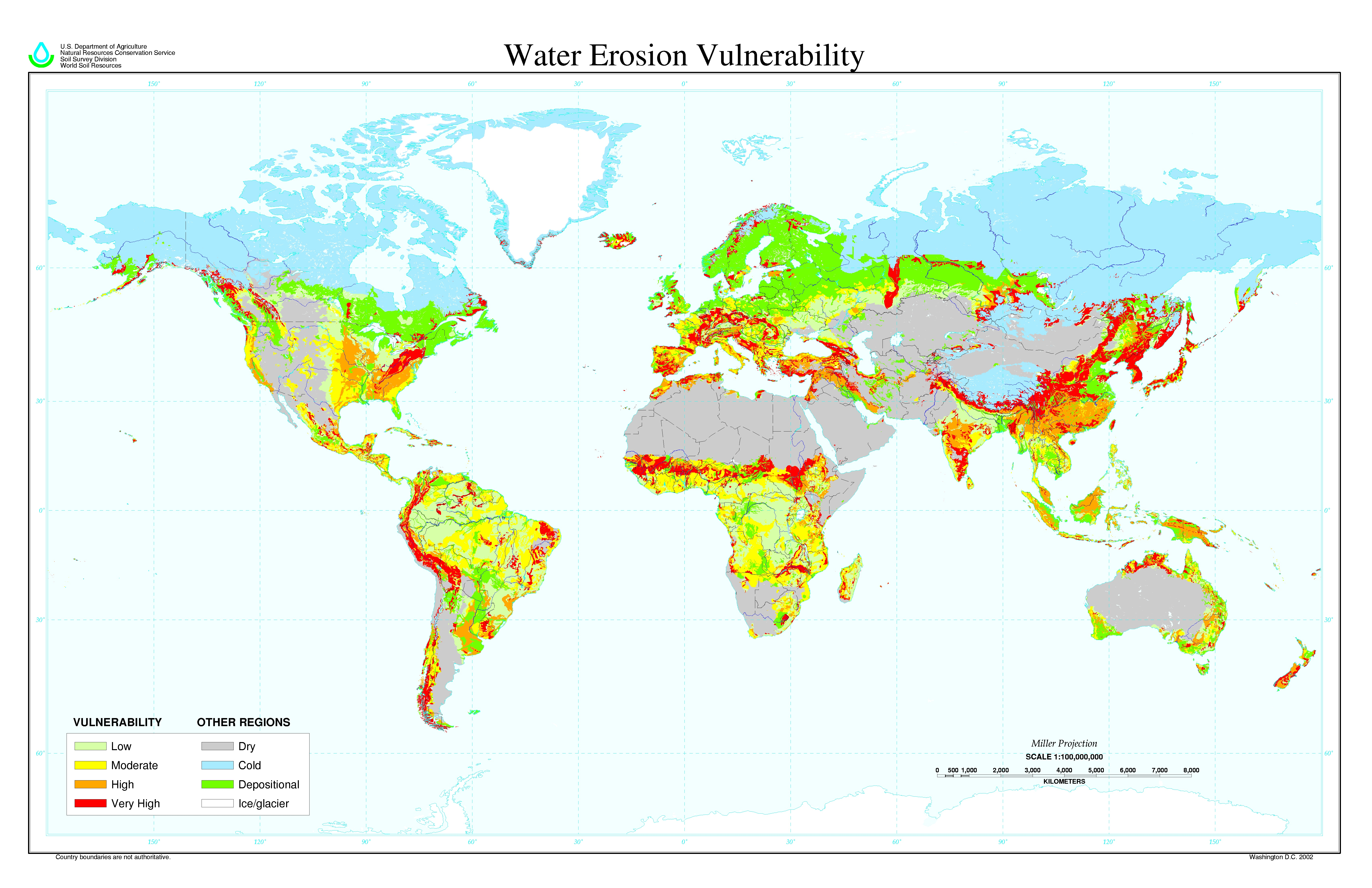 Global map illustrating vulnerability to water erosion.